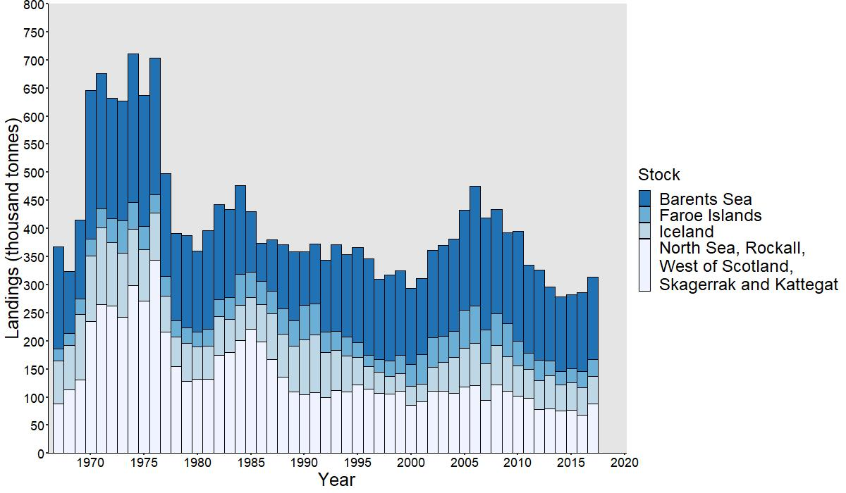 Landings of saithe in the eastern Atlantic ocean.